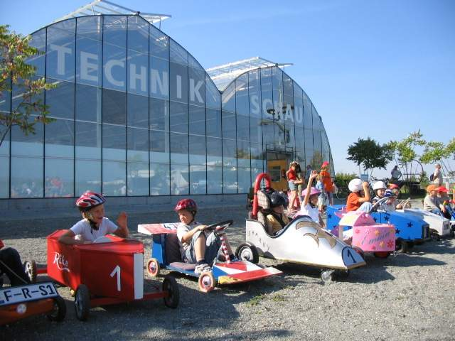 Soapbox car racing